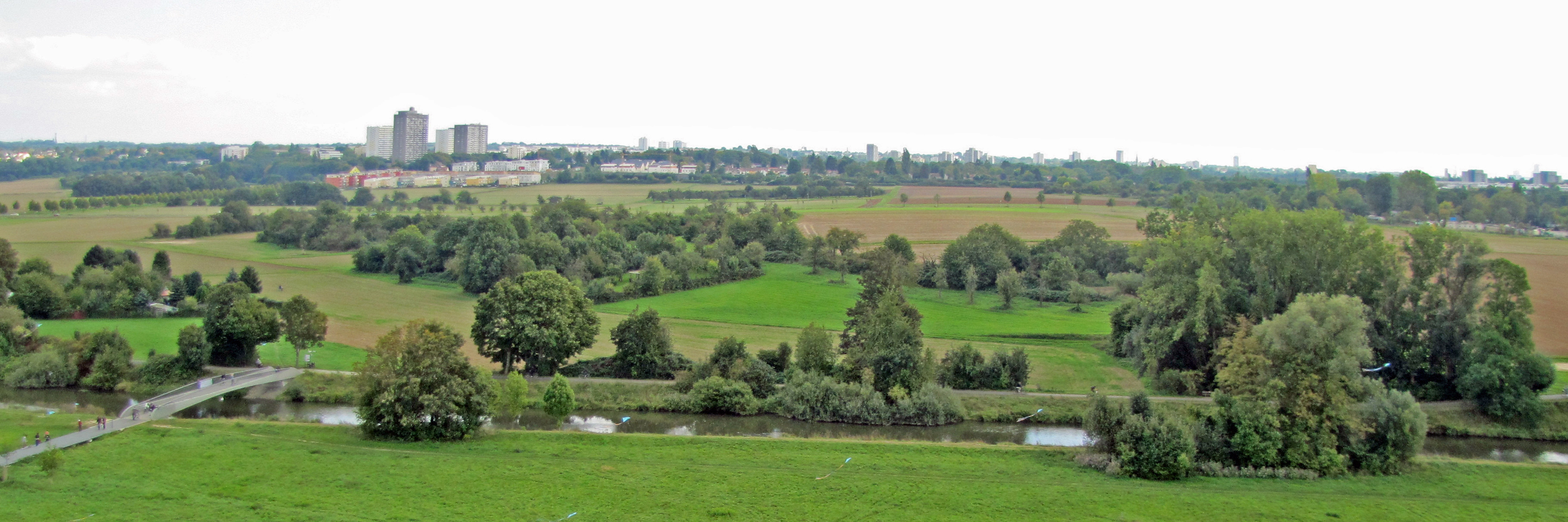 "Frankfurter Berg", (borough of Frankfurt am Main), view from north. At foreground the "Nidda" river.